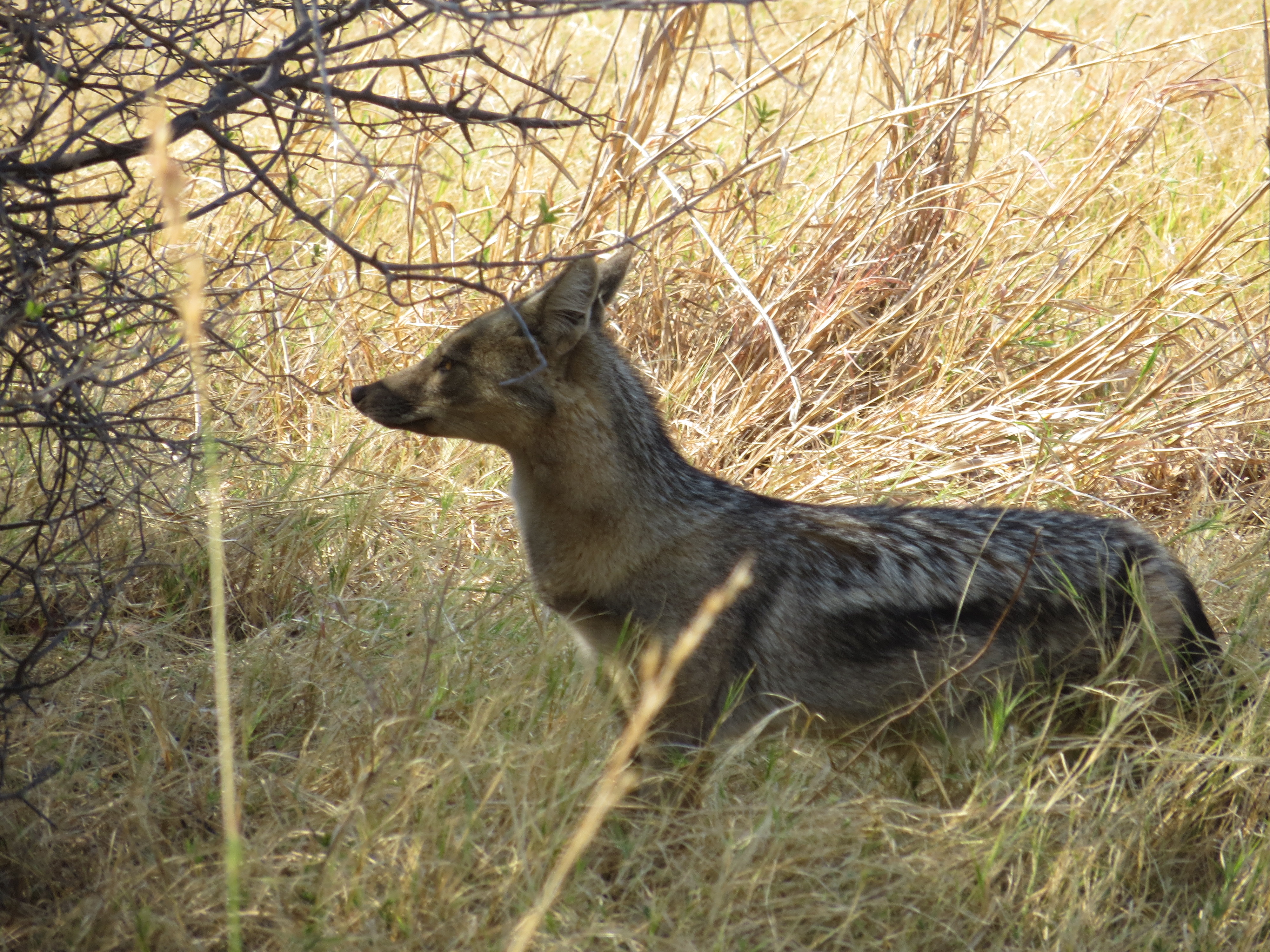 Moremi Game Reserve, Botswana